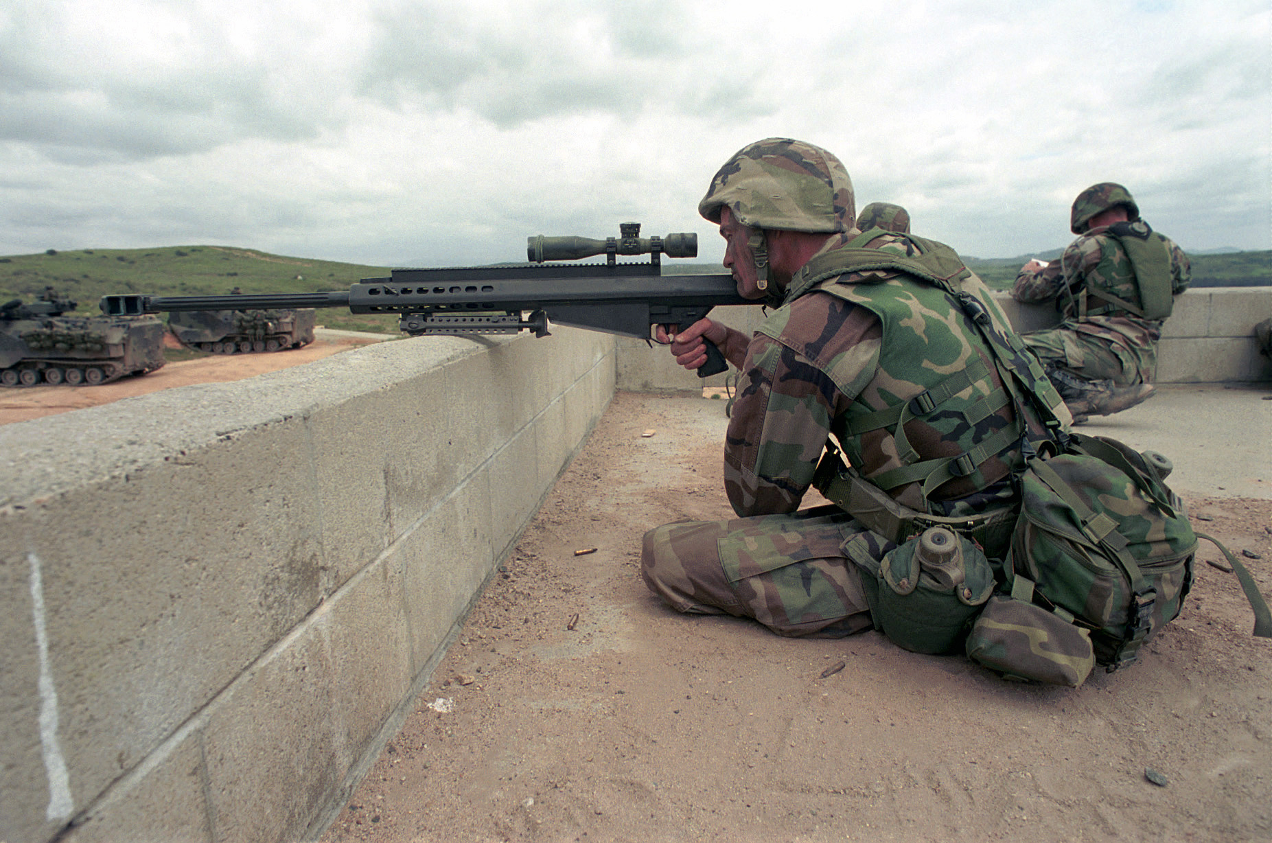 U.S. Marine Corps (USMC) Corporal Joe Rattlif sights through the scope mounted to a 12.7mm Barrett Light Fifty Model 82A1 sniping rifle, while training at the Military Operations in Urban Terrain (MOUT) facility, Camp Pendleton, California, during Exercise Kernal Blitz 2001. Location: Camp Pendleton, California, United States of America (USA).